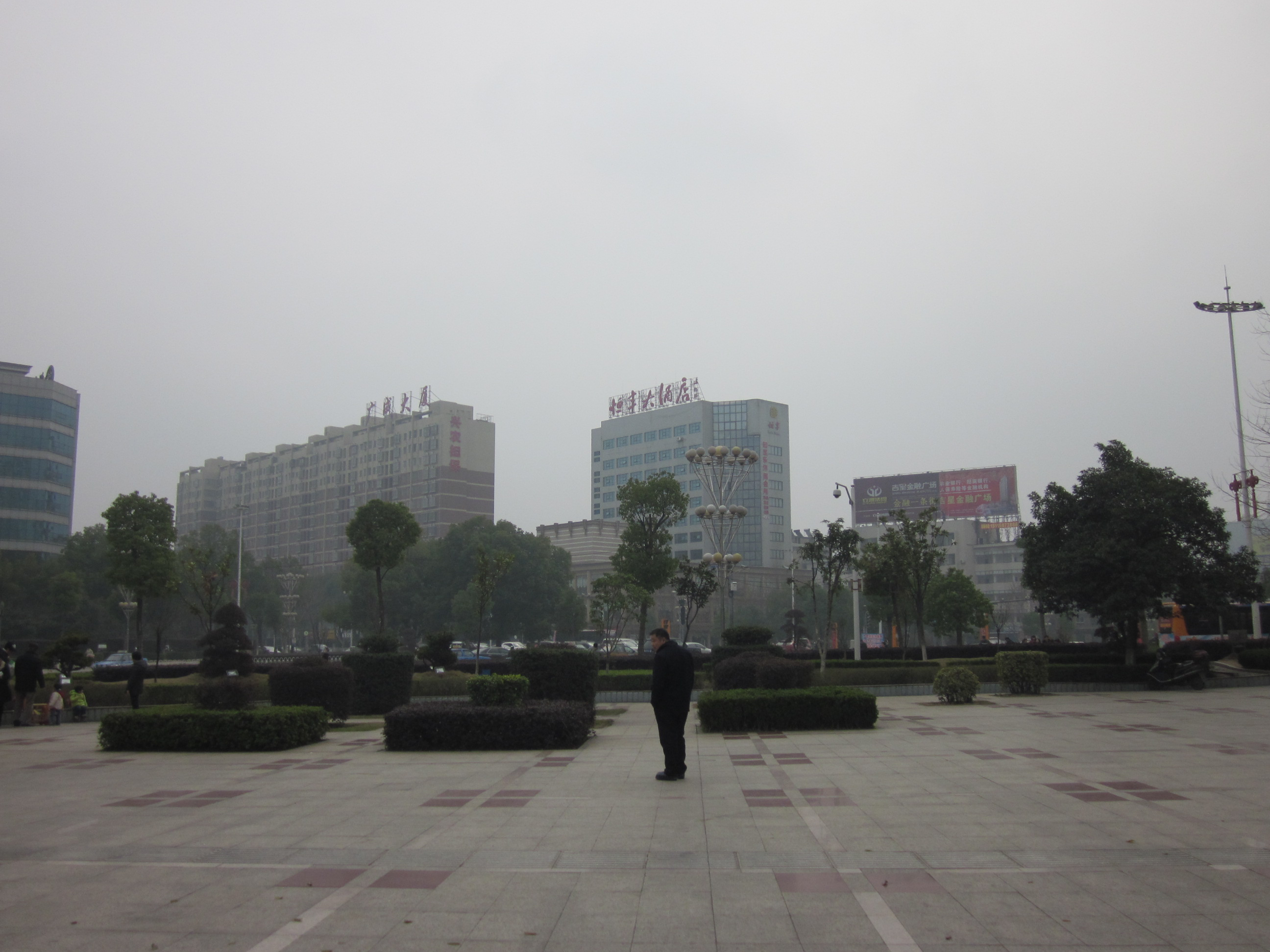 Loudi, Hunan, China.